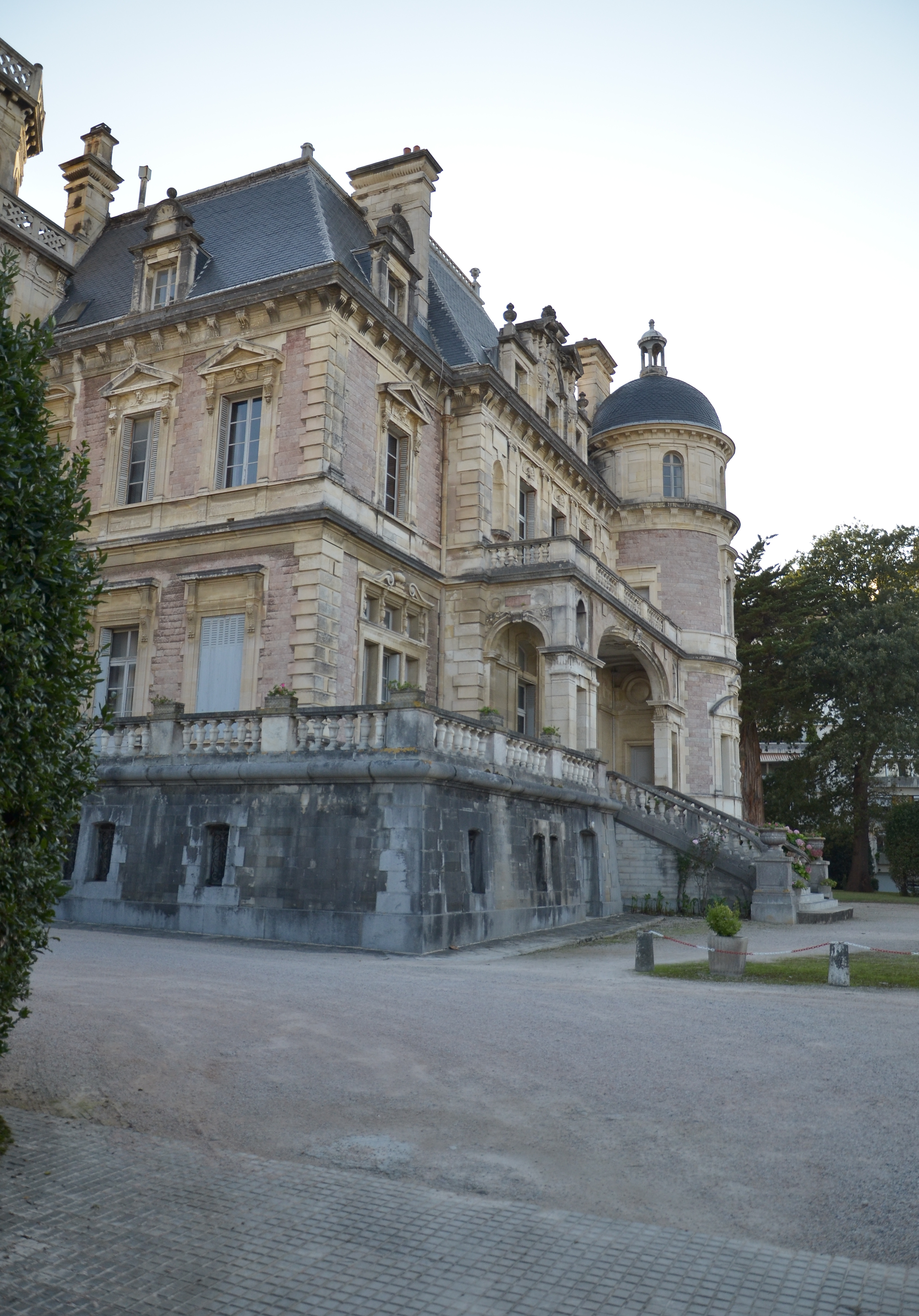 Château Boulardelevation, external decoration, roof (Enrolled)